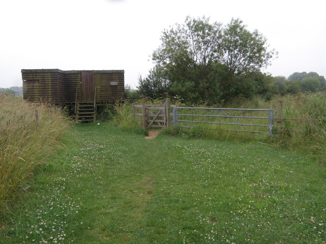 Bird Hide at Titchmarsh Nature Reserve Former sand and gravel pits now a large nature reserve with footpaths access to most parts. The Nene Way long distance path also passes through the reserve.